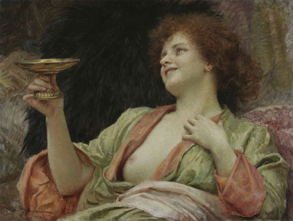 The Toast